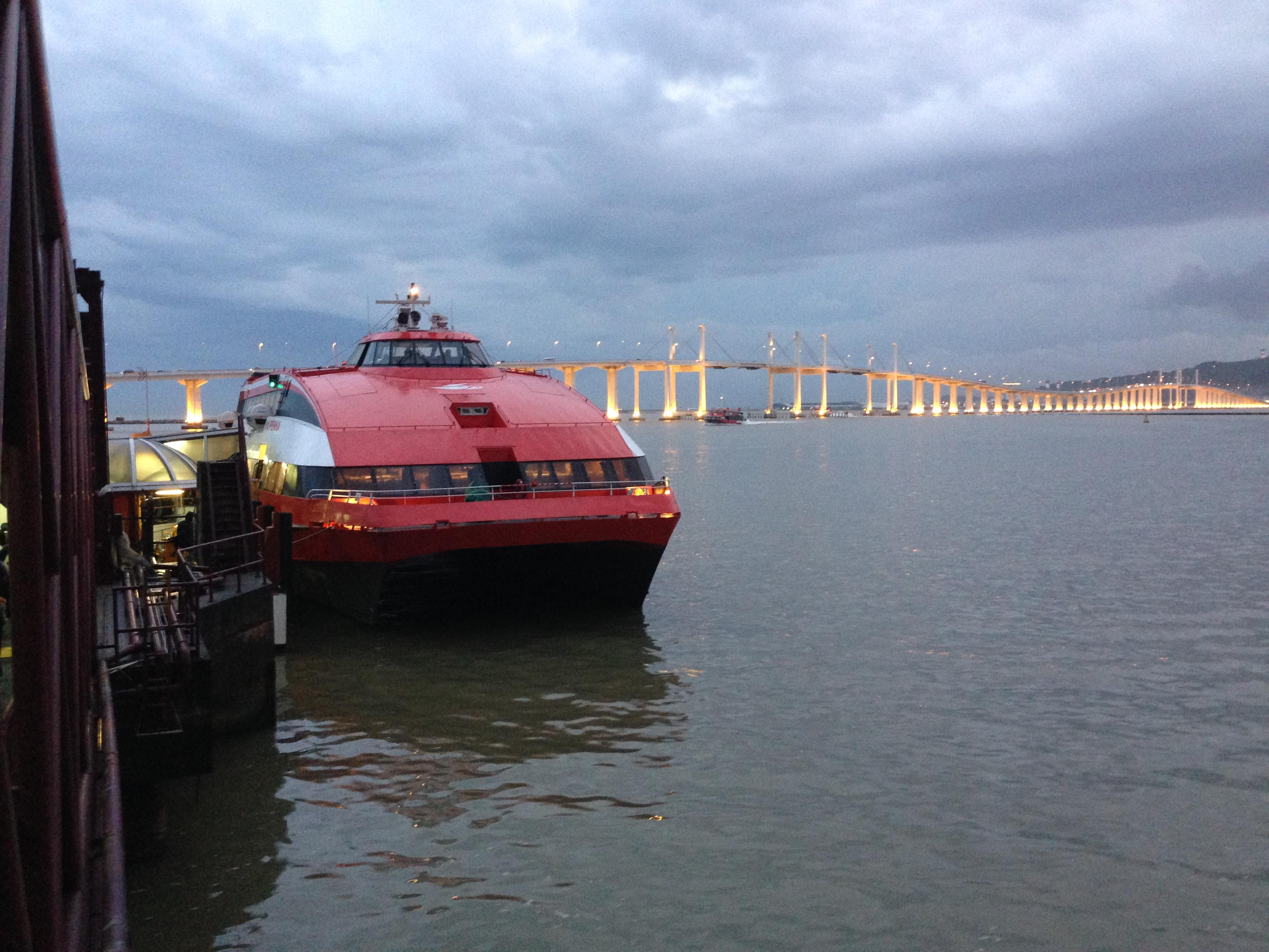 TurboJET Ferry between Hong Kong and Macau at the Macau ferry pier